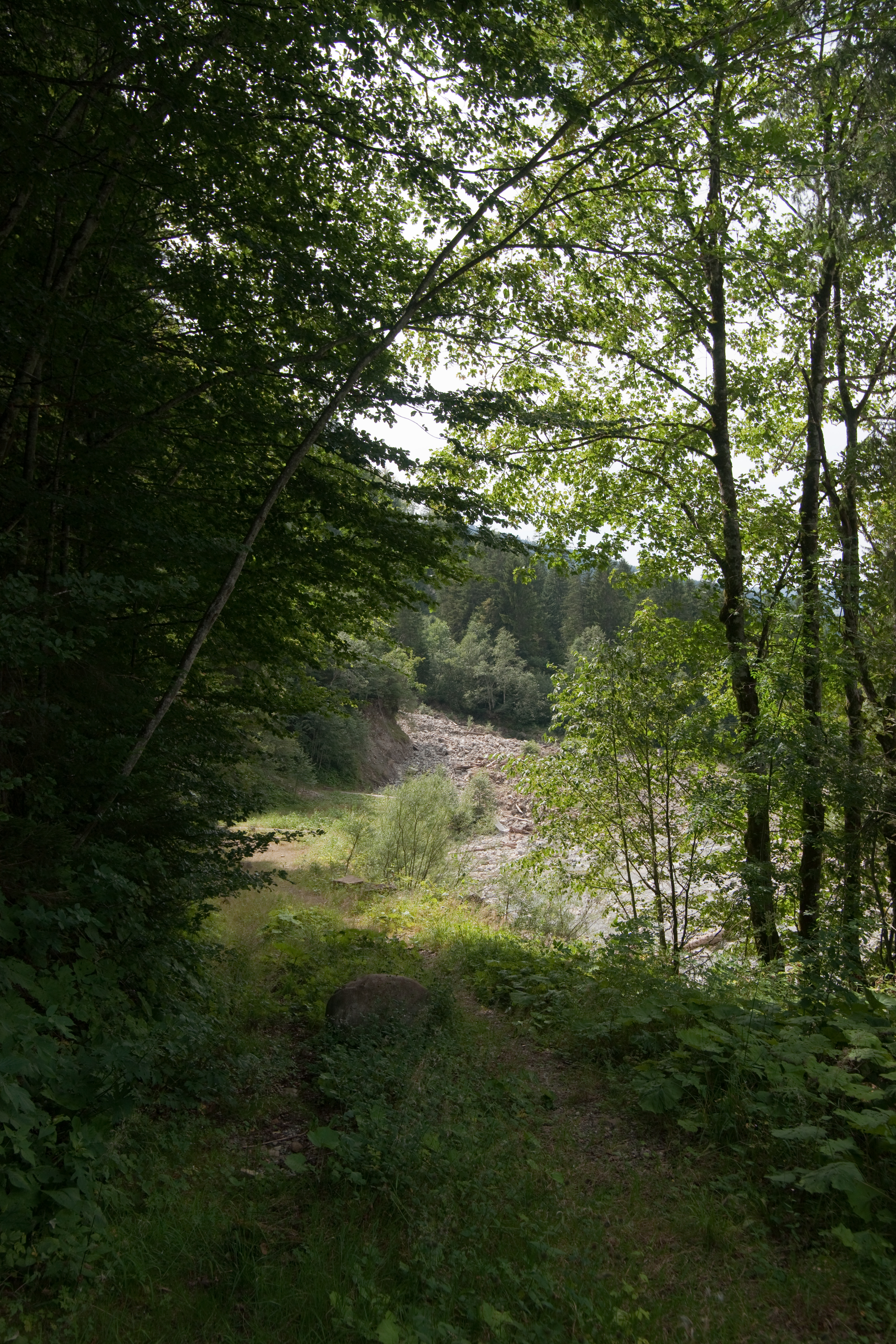 Kalte Sense river in the canton of Berne, Switzerland.